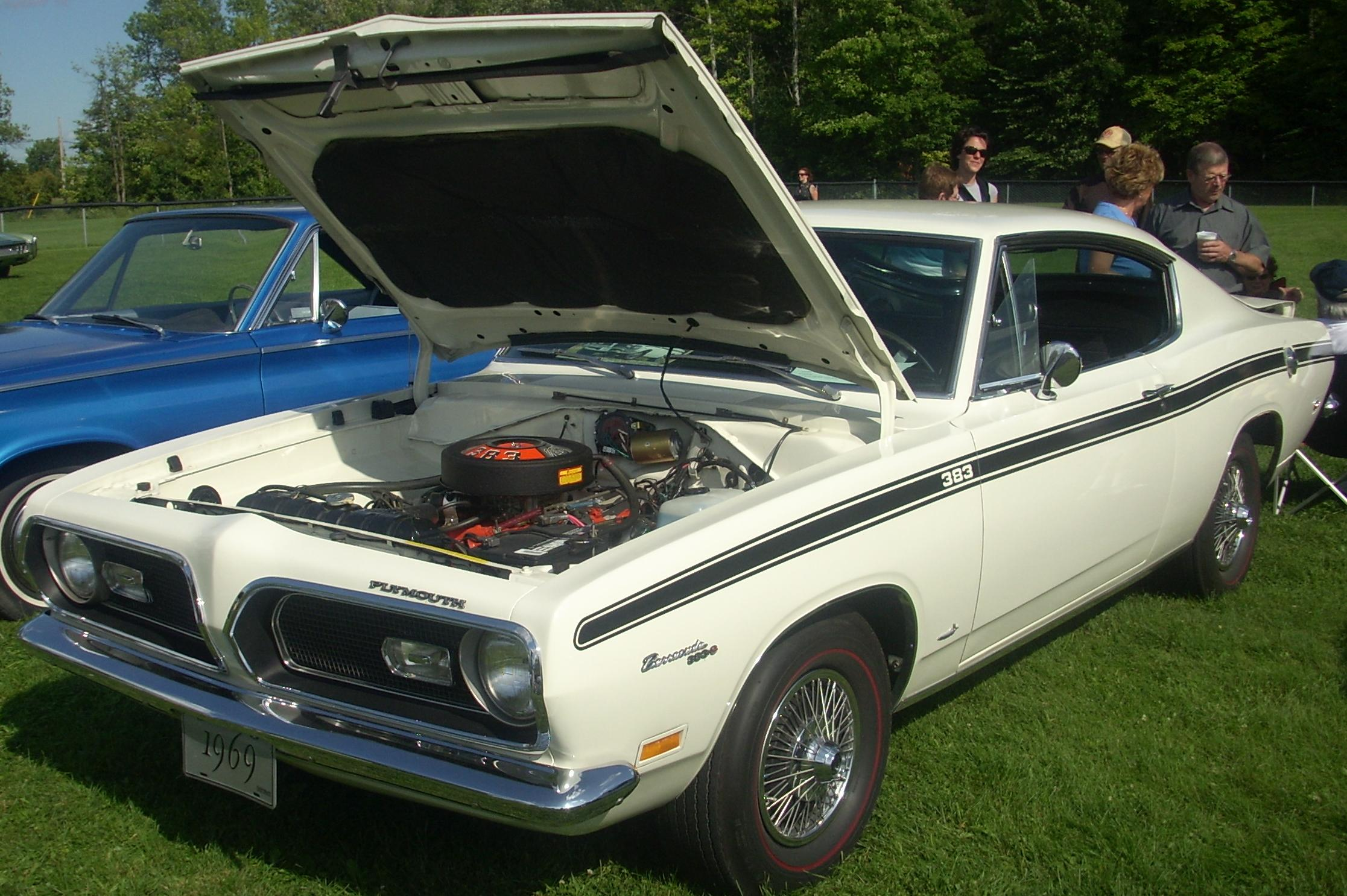 1969 Plymouth Barracuda photographed at the Rassemblement Rigaud Car Show.